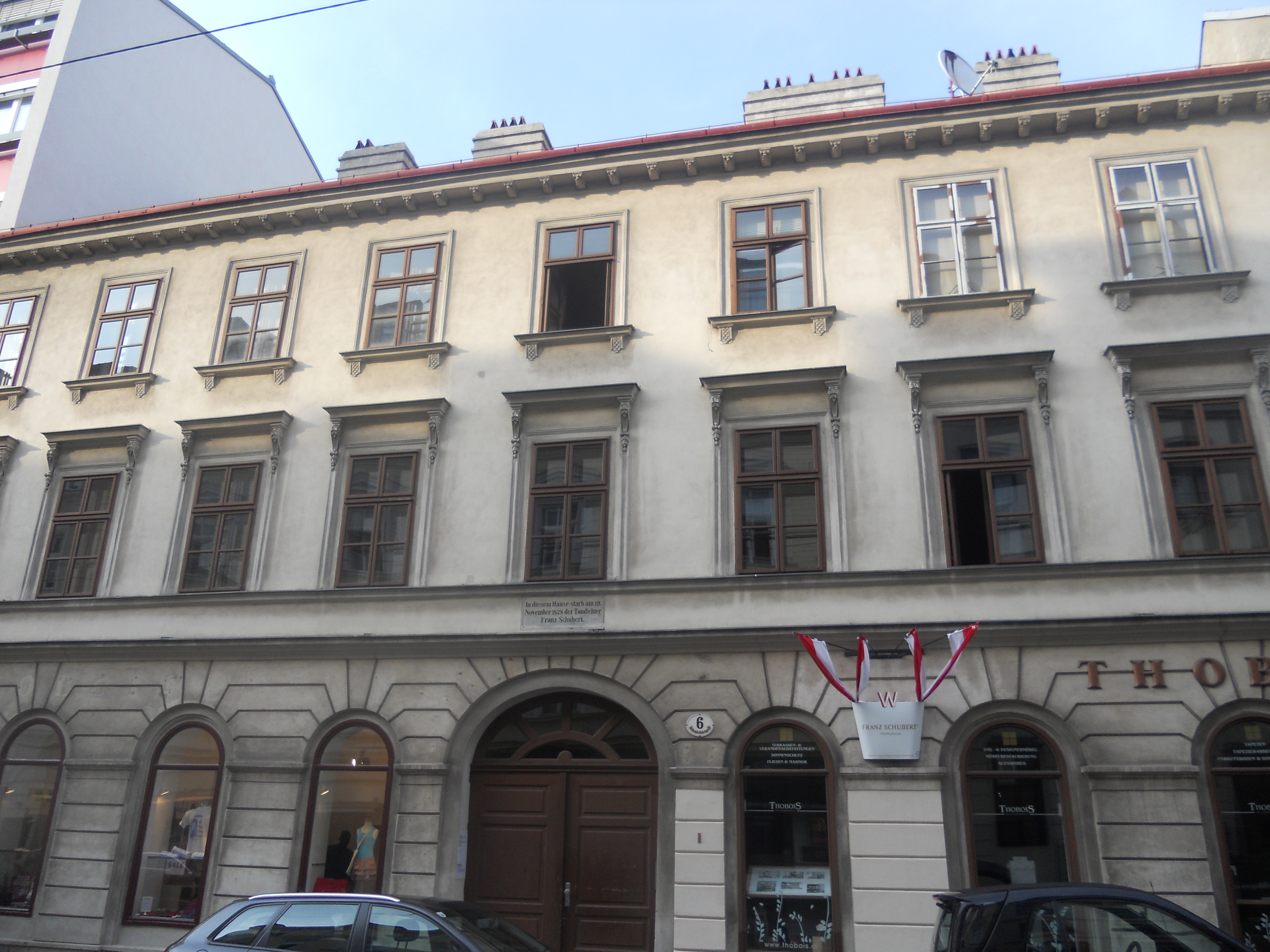 House Kettenbrückengasse 6in Vienna where Franz Schubert died.